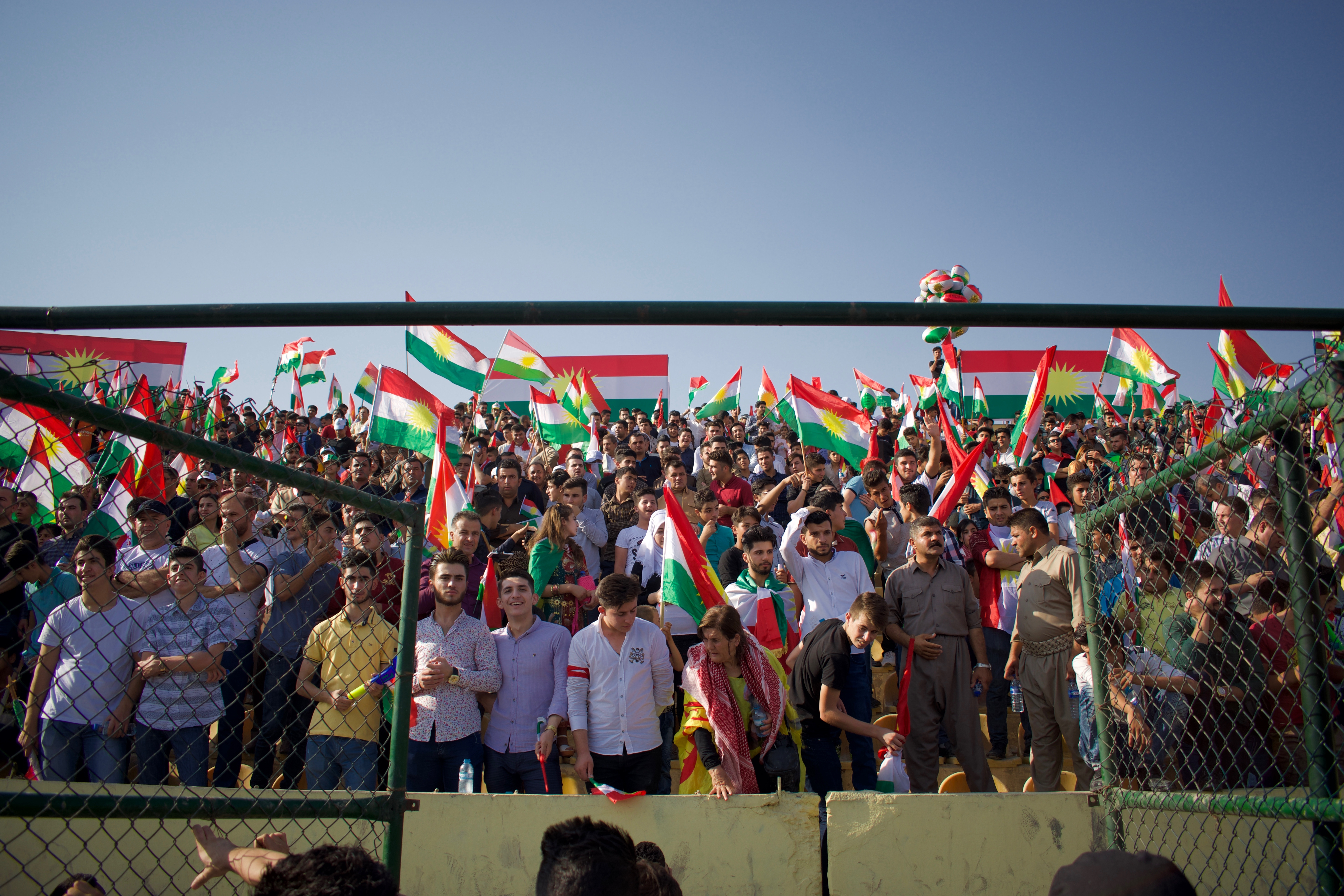 Kurdistan Referendum and Independence Rally at Franso Hariri Stadium in Erbil, Kurdistan Region of Iraq